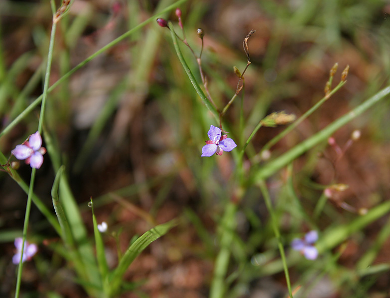 Description corrected as Murdannia semiteres syn. Aneilema semiteres in Hyderabad , India.